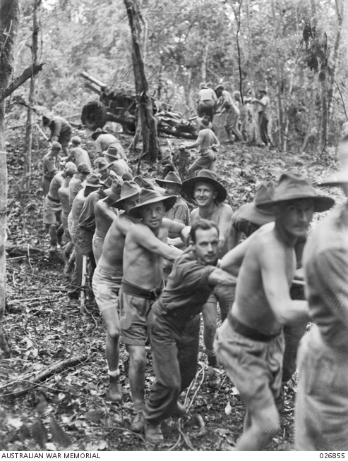 25-Pounder guns of B Troop, 14th Field Regiment, Royal Australian Artillery, being pulled through dense jungle in the vicinity of Uberi on the Kokoda Trail, Papua and New Guinea.